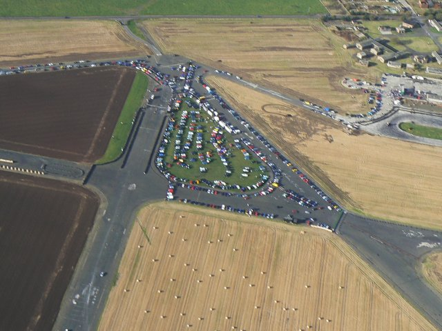 Car boot sale On the old RNAS aerodrome at Crail, HMS Jackdaw.